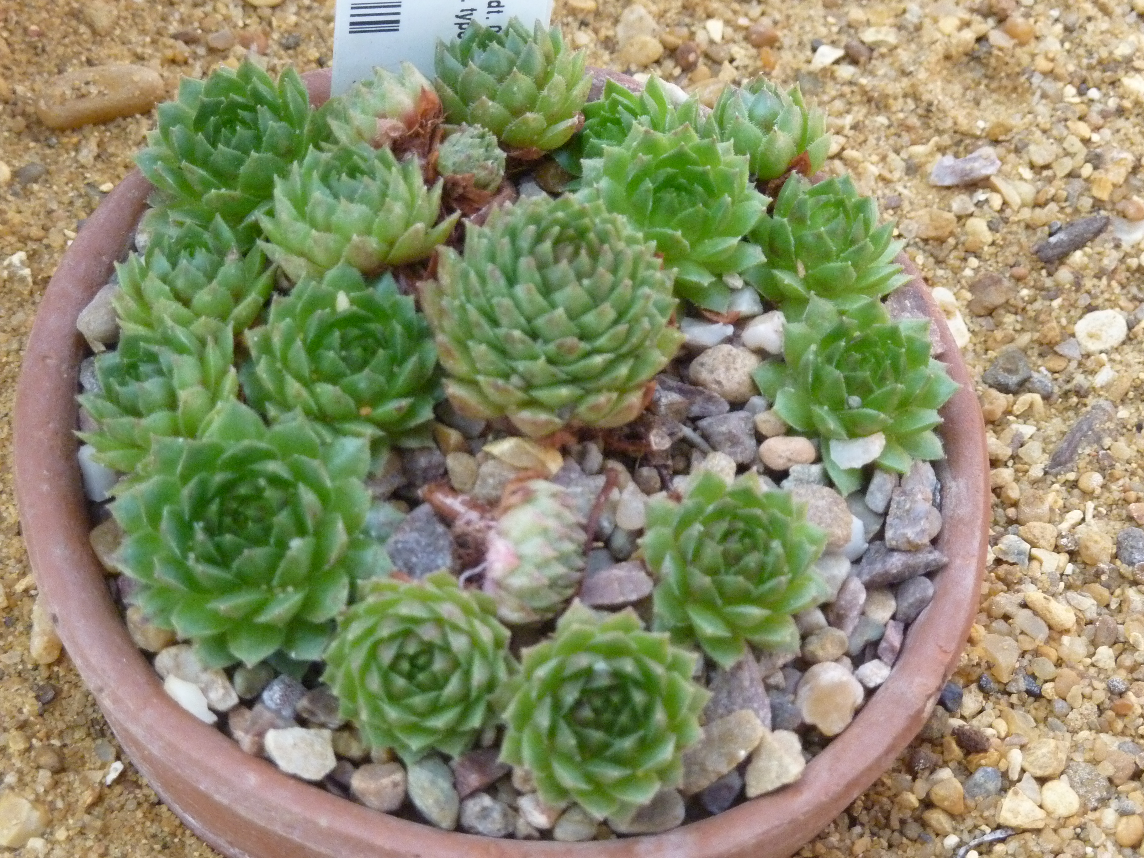 Taken in the Cambridge University Botanic Garden.